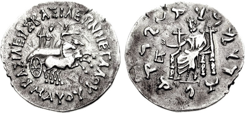 Coin of the Indo-Scythian king Maus, about 80 BC